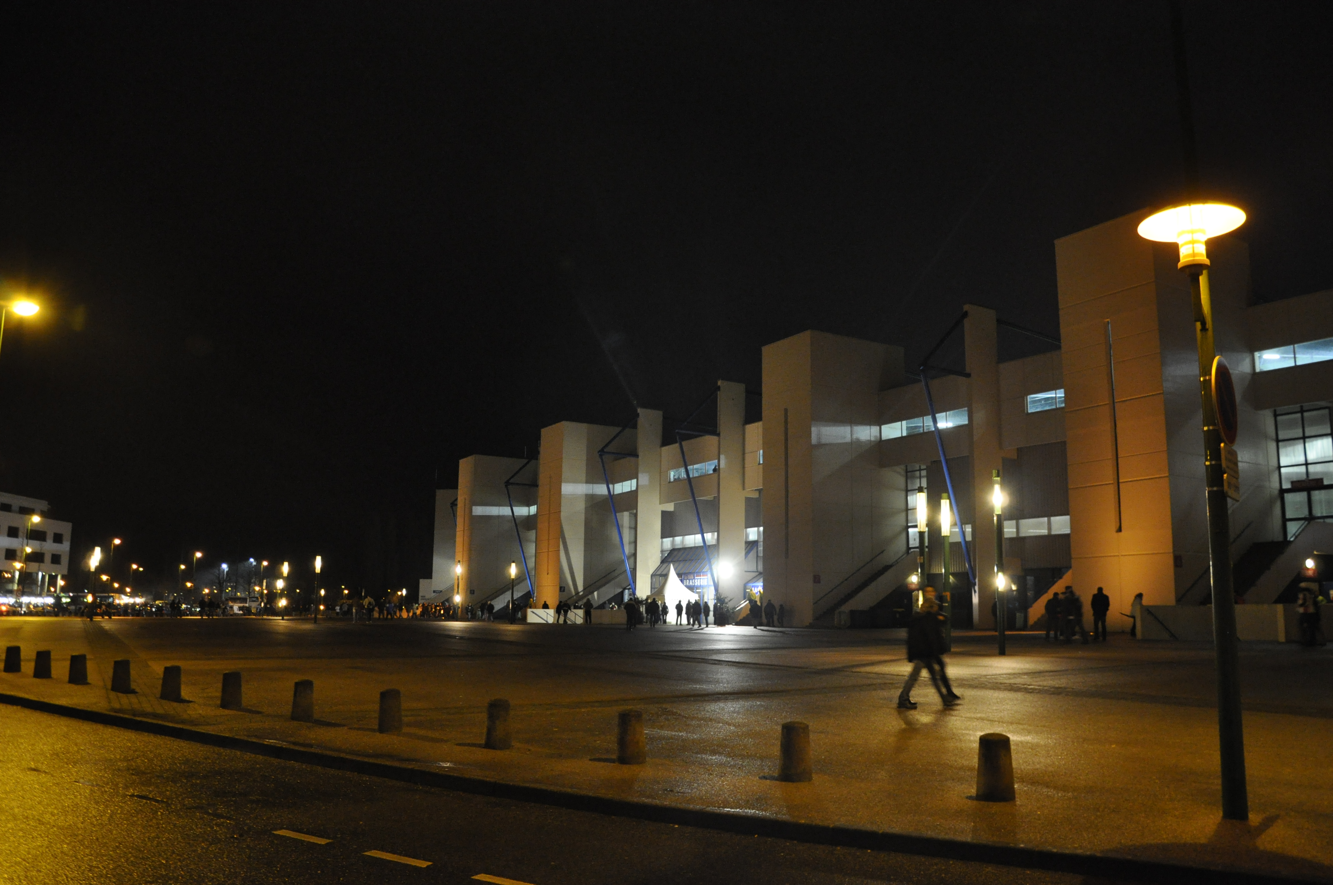 Stade Michel-d'Ornano, Caen, France